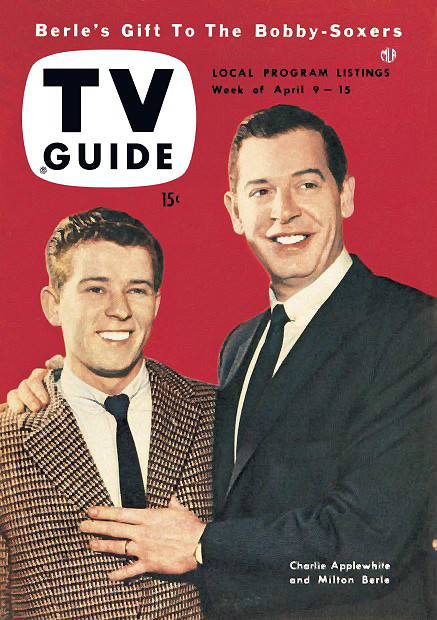 Photo of Charlie Applewhite and Milton Berle from the cover of TV Guide, April 8, 1954. A search for renewal was done at . using "TV Guide" as the title. The only renewal before 1956 was for a Norman Rockwell image of Arthur Godfrey which was the magazine's cover for January 8, 1955. The TV Guide copyright renewals with the exception of the 1955 Norman Rockwell "Godfrey" cover begin with 1956. There is no evidence that copyright is still claimed on this material.